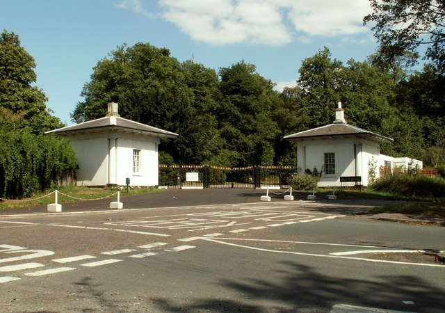 Entrance to Great Hyde Hall, near Sawbridgeworth, Herts. These lodges are situated along the Sawbridgeworth Road.